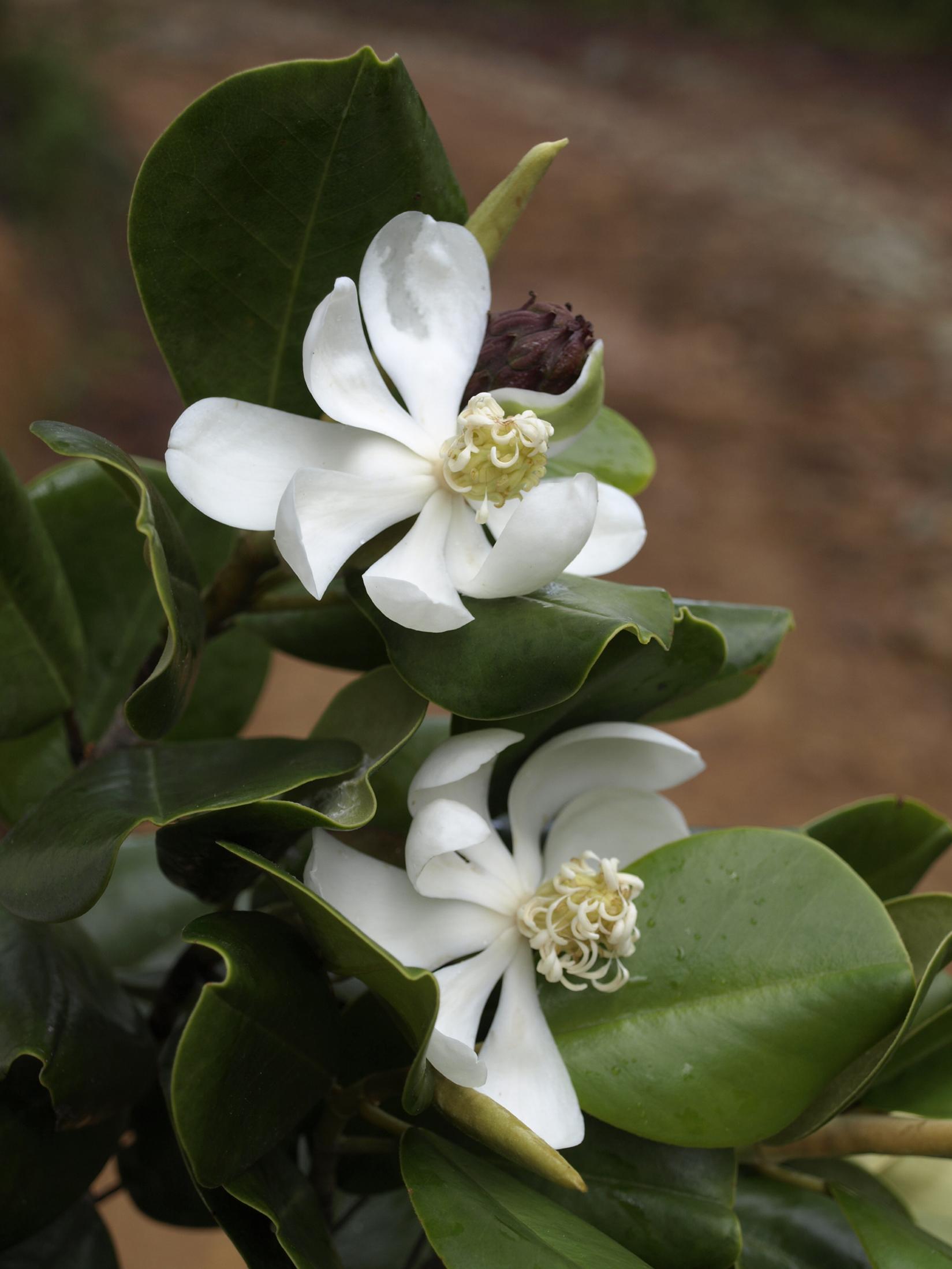 Magnolia pallescens — Pale Magnolia, in flower. In the La Vega Province section of Valle Nuevo National Park, the Dominican Republic. On the IUCN Red List of Endangered species.